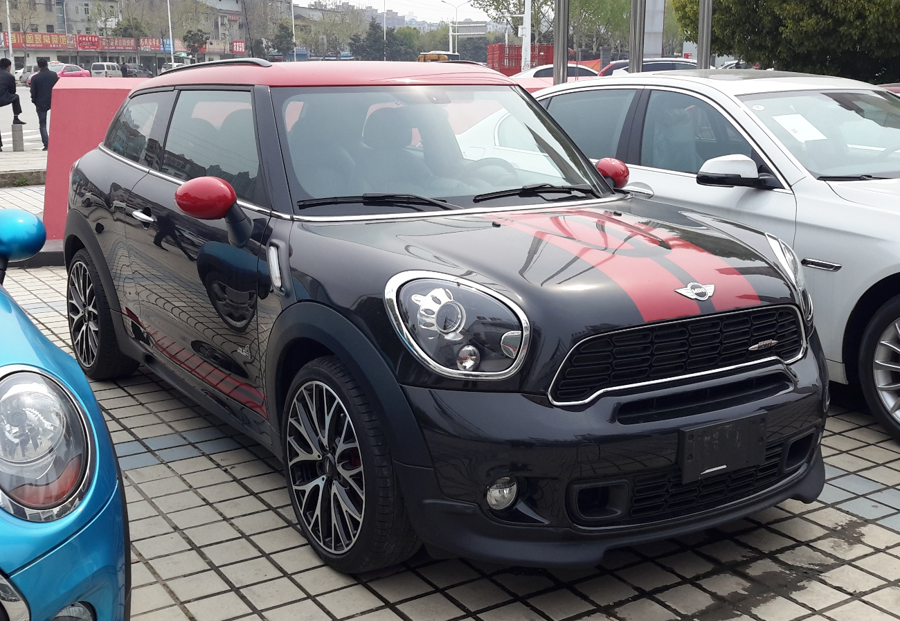 Mini Paceman John Cooper Works photographed in Wuhan, Hubei province, China.